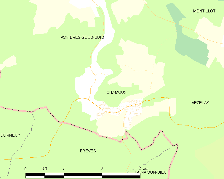 Map of French municipality Chamoux